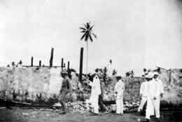 Gen. Jacob Smith and his staff inspect the ruins of Balangiga in October 1901, a few weeks after the US retaliation by Capt. Bookmiller and his troops.